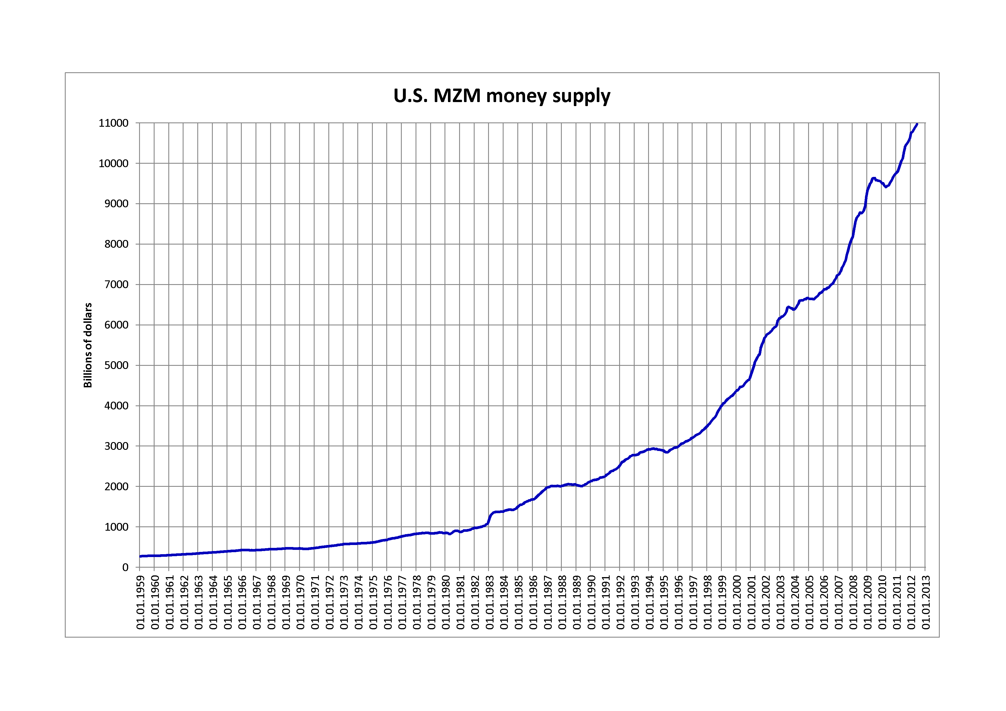 U.S. MZM money supply from January 1959 to June 2012 (monthly data in billions of dollars)